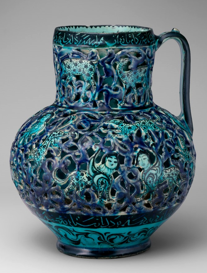 Iranian jug; AD 1215-16 ; underglaze painted, incised, and pierced fritware ; Now in the Metropolitan Museum of Art